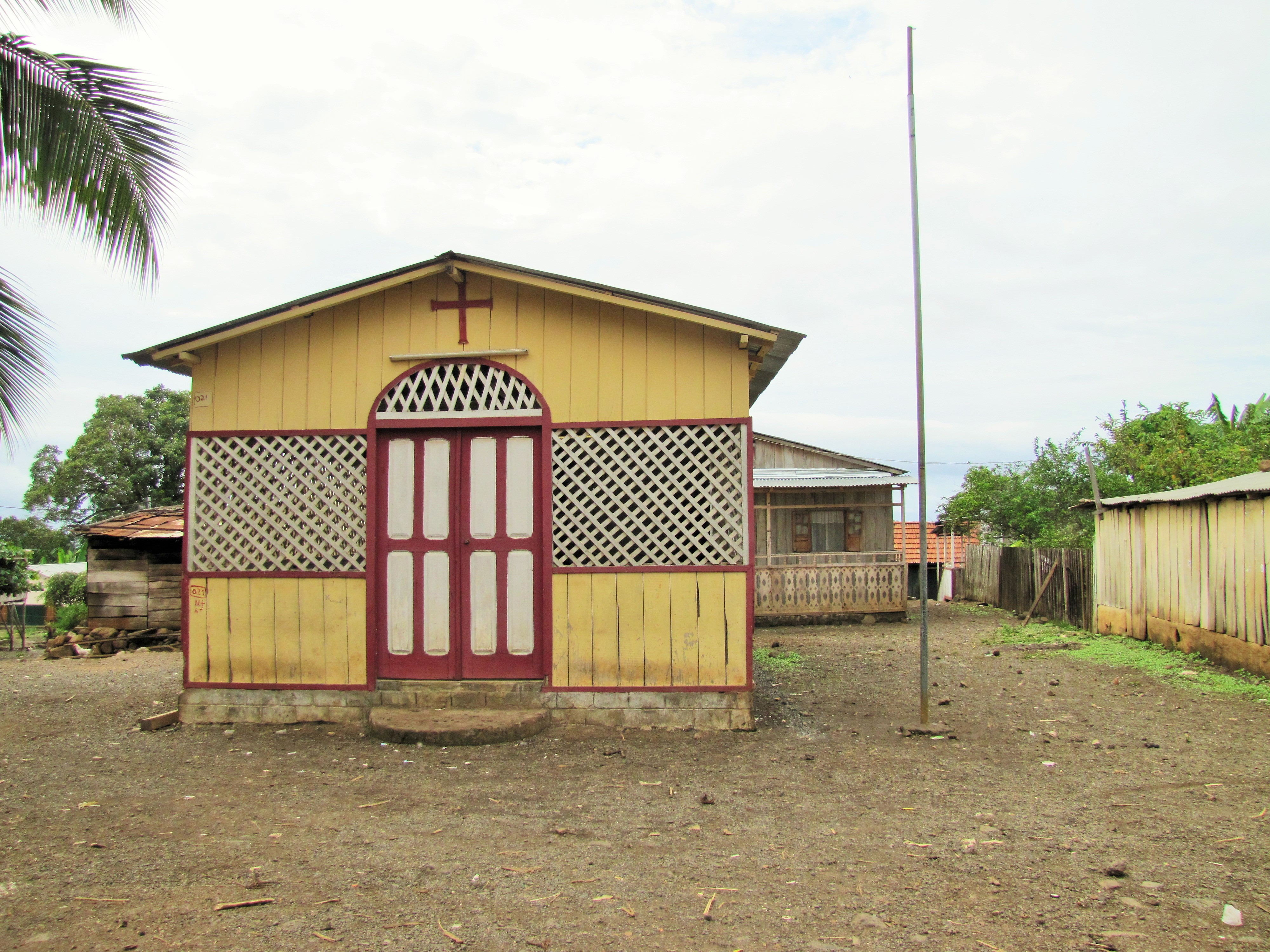 Sao Tome Monteforte Church